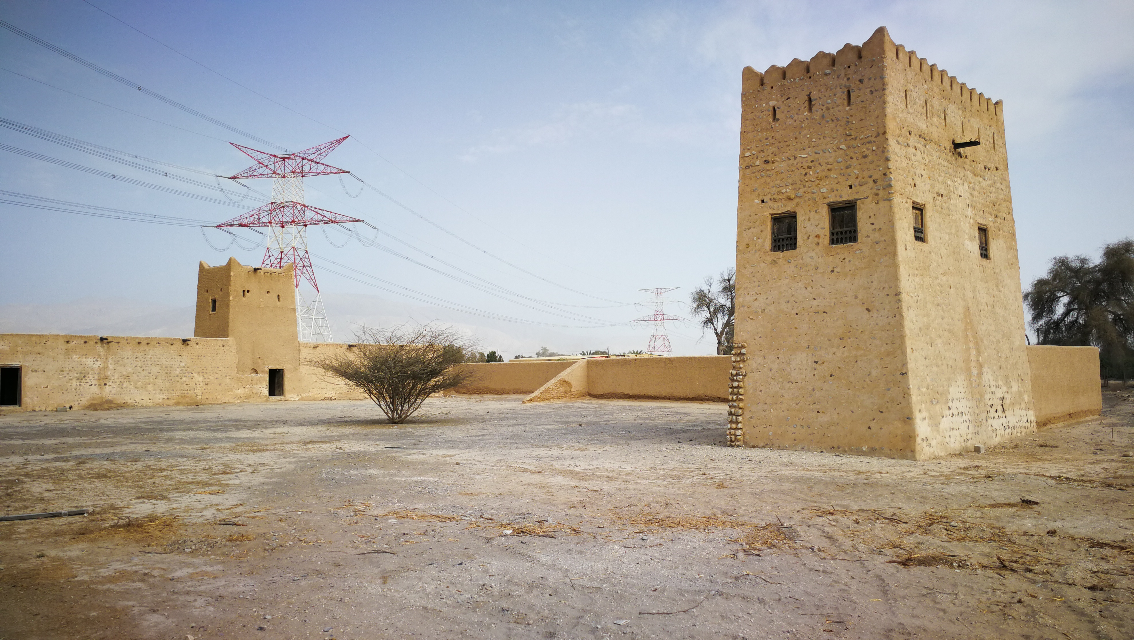 A well preserved structure highlights the history of the earlier rulers of this beautiful emirate.